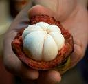 XanGo mangosteen fruit products. The mangosteen juice is made from the whole mangosteen fruit.